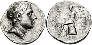 SELEUKID KINGS of SYRIA. Antiochos III (the Great). 220-187 BC Susa, after Molon. AR Tetradrachm (28mm, 16.73 gm). Susa mint. Struck during second reign at Susa, 220-187 BC. Diademed head right, with small horn / Apollo seated left on omphalos, holding arrow and resting hand on bow; monograms in outer left and right fields. SC 1214.2; Le Rider, Suse 38; cf. SNG Spaer 764. VF, cleaned and a bit bright. The small horn on the head of Antiochos that makes its appearance on this and other concurrent issues commemorates Antiochos' suppression of the usurper Molon in Susa (see SC pg. 449).